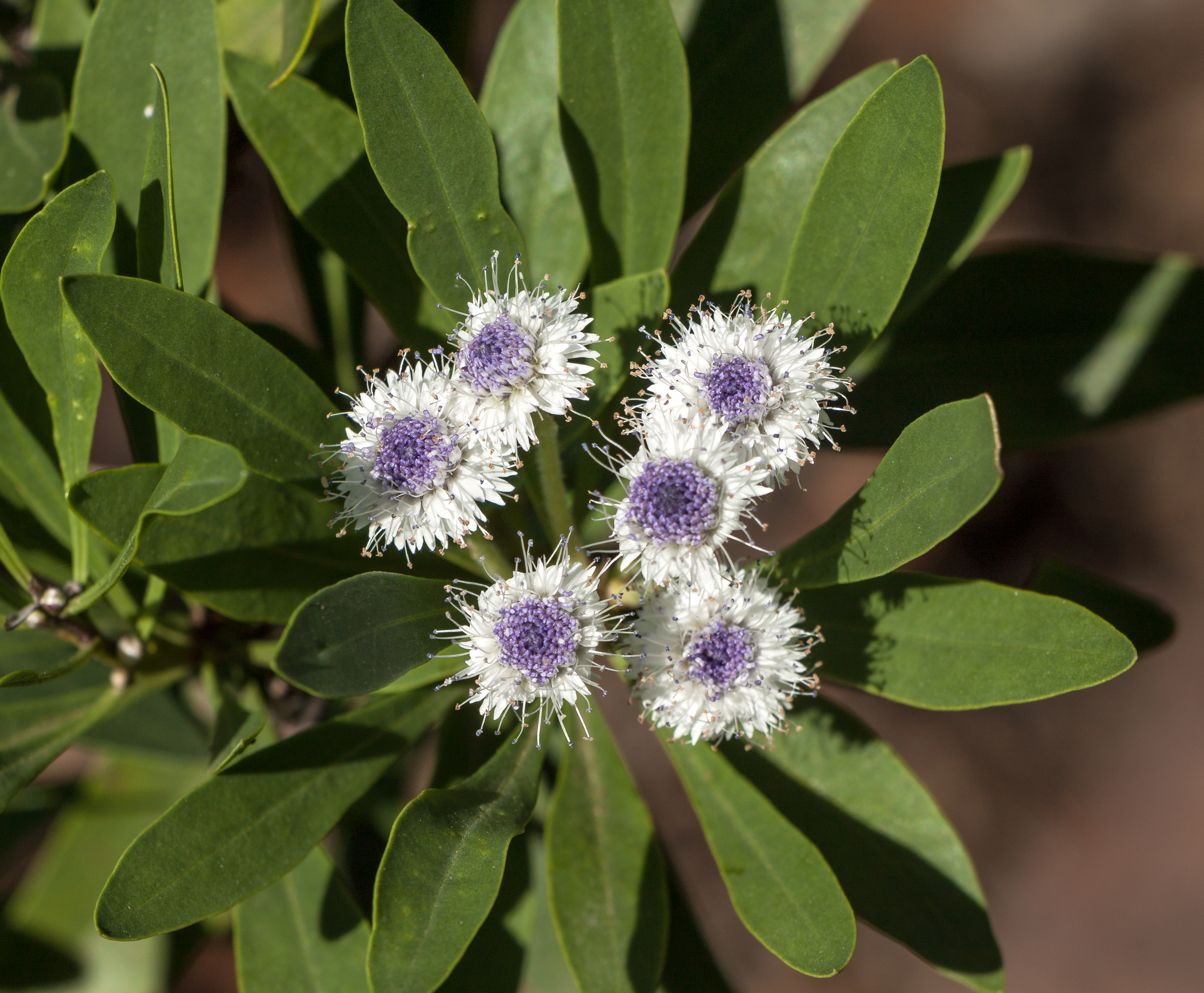 Globularia ascanii Bramwell & Kunkel.; Inflorescences; Jardín Botánico Canario Viera y Clavijo, Gran Canaria, Canary Islands, Spain.